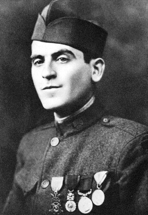 WWI Medal of Honor recipient James E. "Buck" Karnes. He wears the Medal of Honor, the French Médaille militaire , the British Distinguished Conduct Medal and the Montenegrin Medal for Military Bravery.